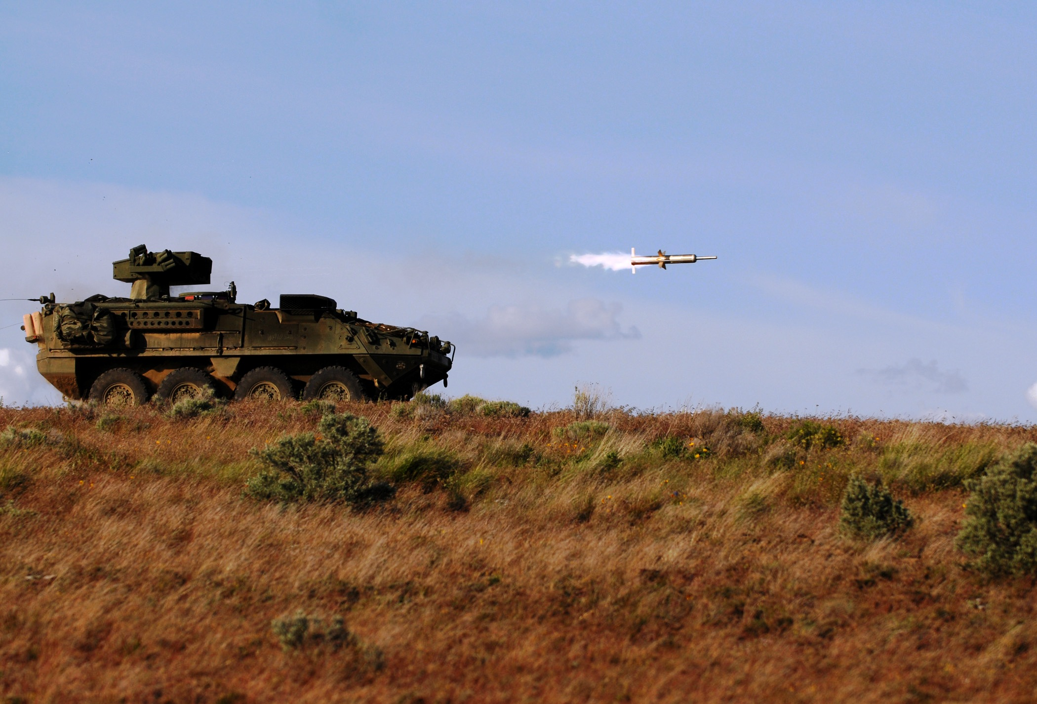 U.S. Army soldiers from 3rd Stryker Brigade, 2nd Infantry Division, launch a TOW missile during TOW gunnery training at Yakima Training Center May 28, 2011.